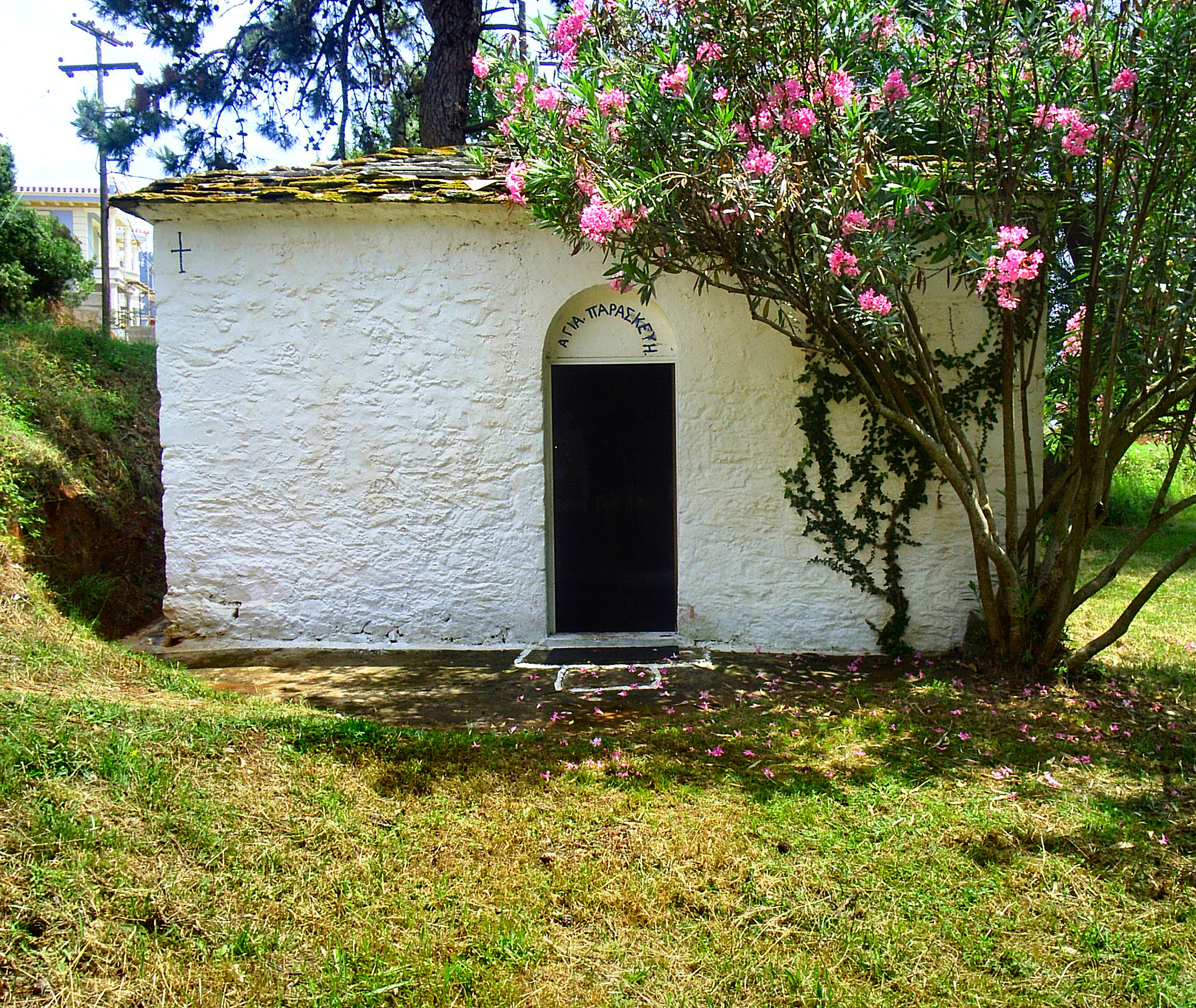 These small Greek Orthodox Churches are built in most villages on the Island. Where the local churchgoers are unable to travel to the town to pray the Priest comes to them for services at set times during the week.They are never locked so anyone can have their own meditation.